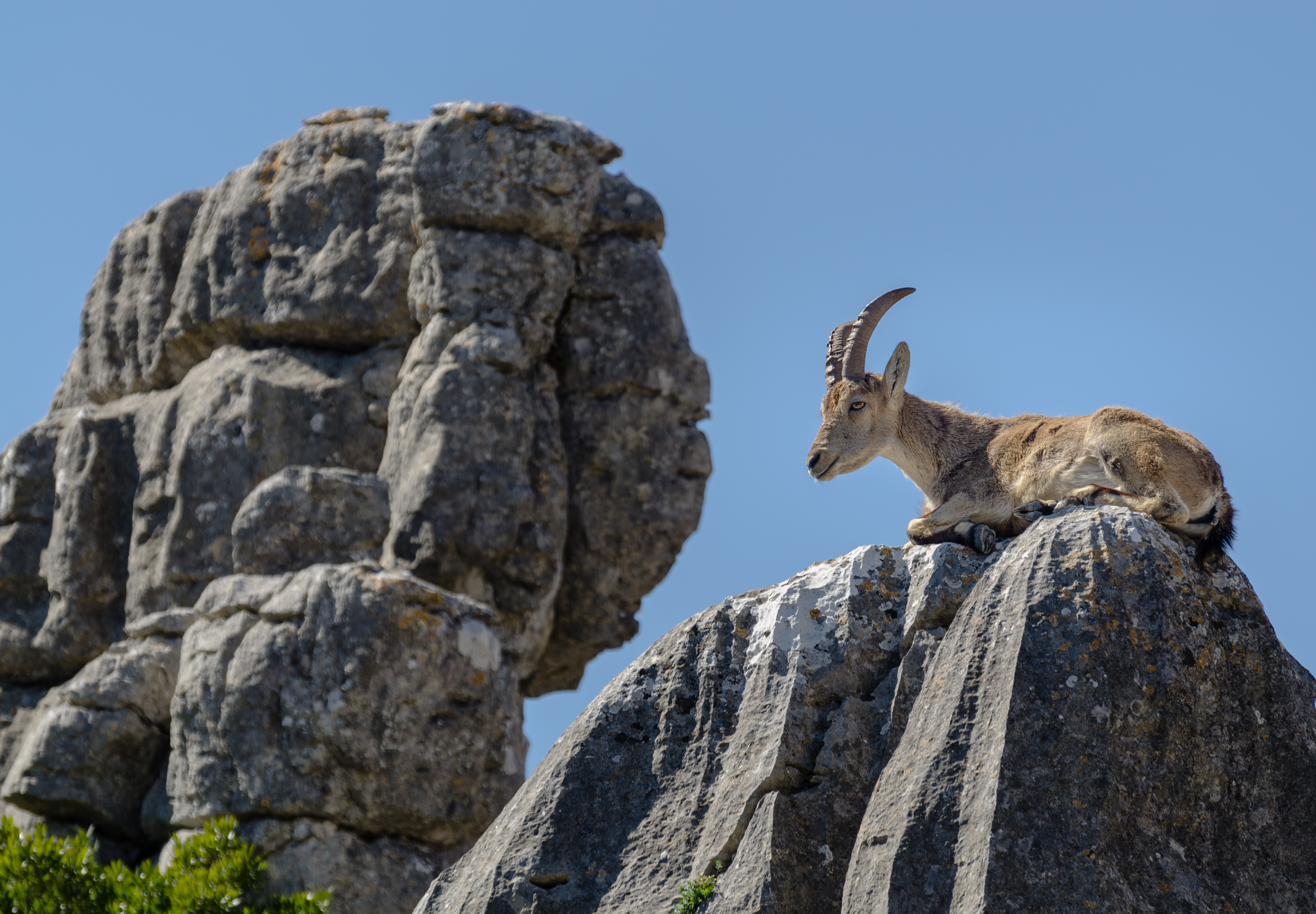 Spanish ibex (Capra pyrenaica hispanica) at rocks in El Torcal, Andalusia